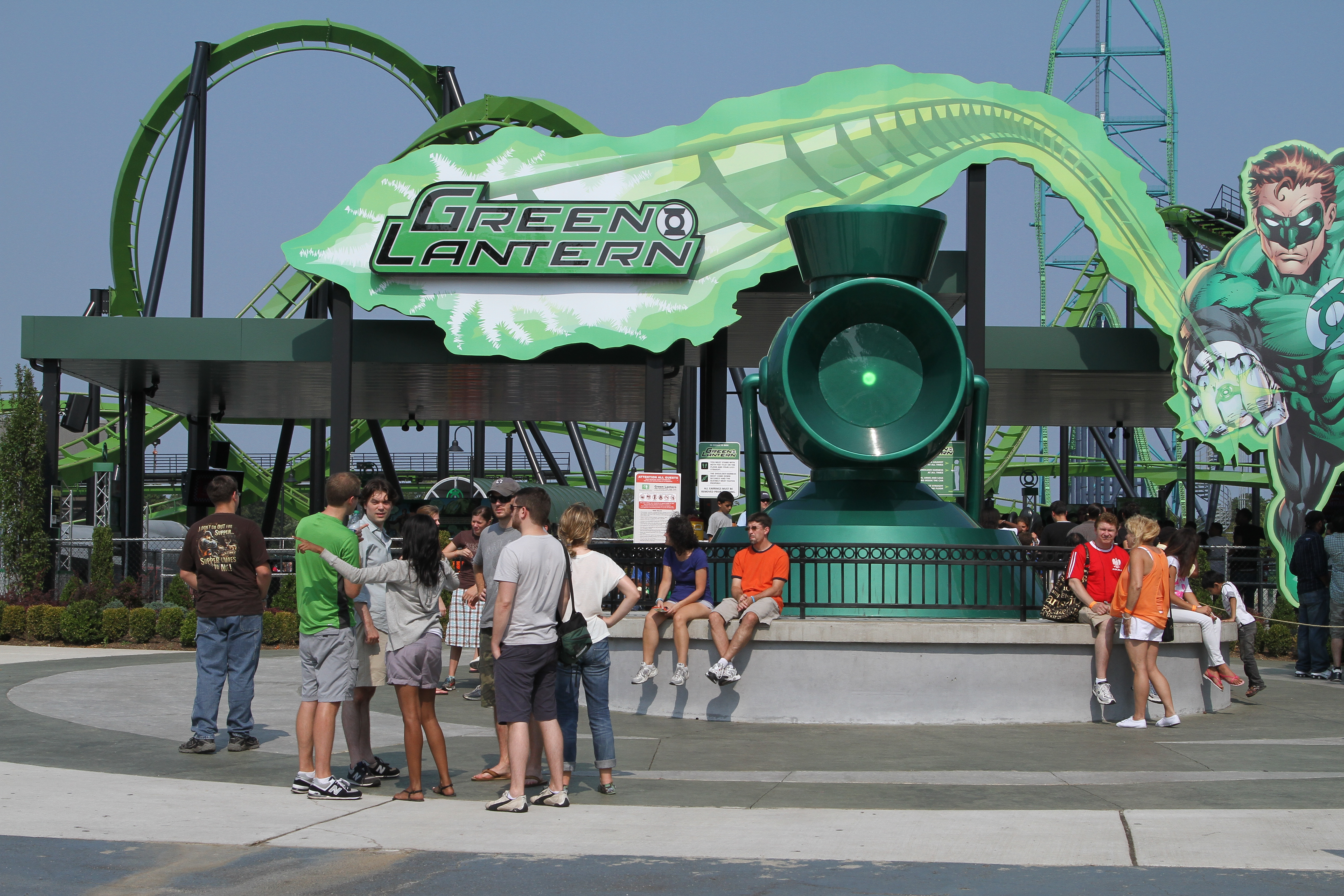 Six Flags Great Adventure Jackson, NJ September 3, 2011